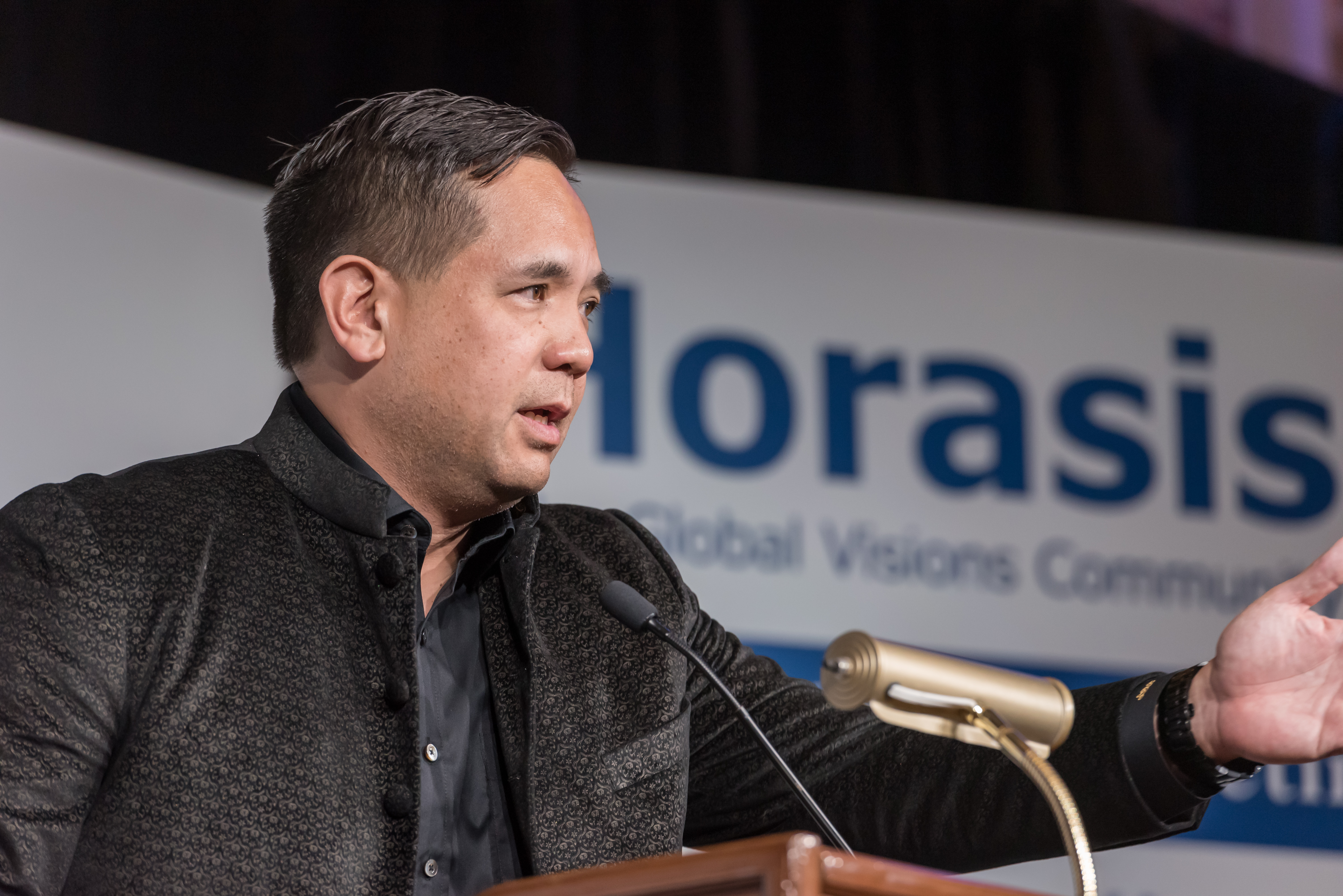 Sean Reyes speaking at Horasis Global China Business Meeting 2019